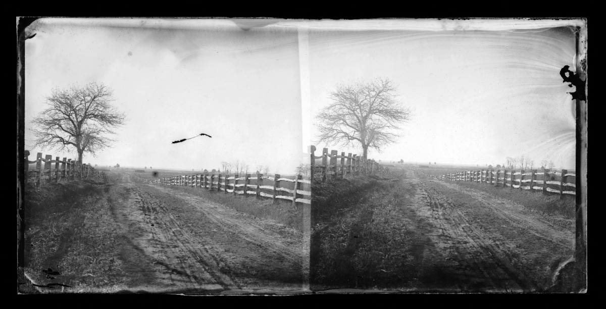 George Bradford Brainerd (American, 1845-1887). Down the Meadow Lane, New Lots, Brooklyn, November 26, 1874. Wet-collodion negative. Prints, Drawings and Photographs. Brooklyn Museum/Brooklyn Public Library, Brooklyn Collection, 1996.164.2-831. (1996.164.2-831_glass_IMLS_SL2.jpg) Help us geotag this photograph so we can represent Brooklyn on Historypin. If you can figure out where this image should be placed: Use Suggestify to suggest a location for it. [or] Leave a comment on Flickr and link to the location on Google Maps. [or] Tweet @brooklynmuseum with the Flickr image URL, the location link to Google Maps and use the #mapBK hashtag. More about #mapBK